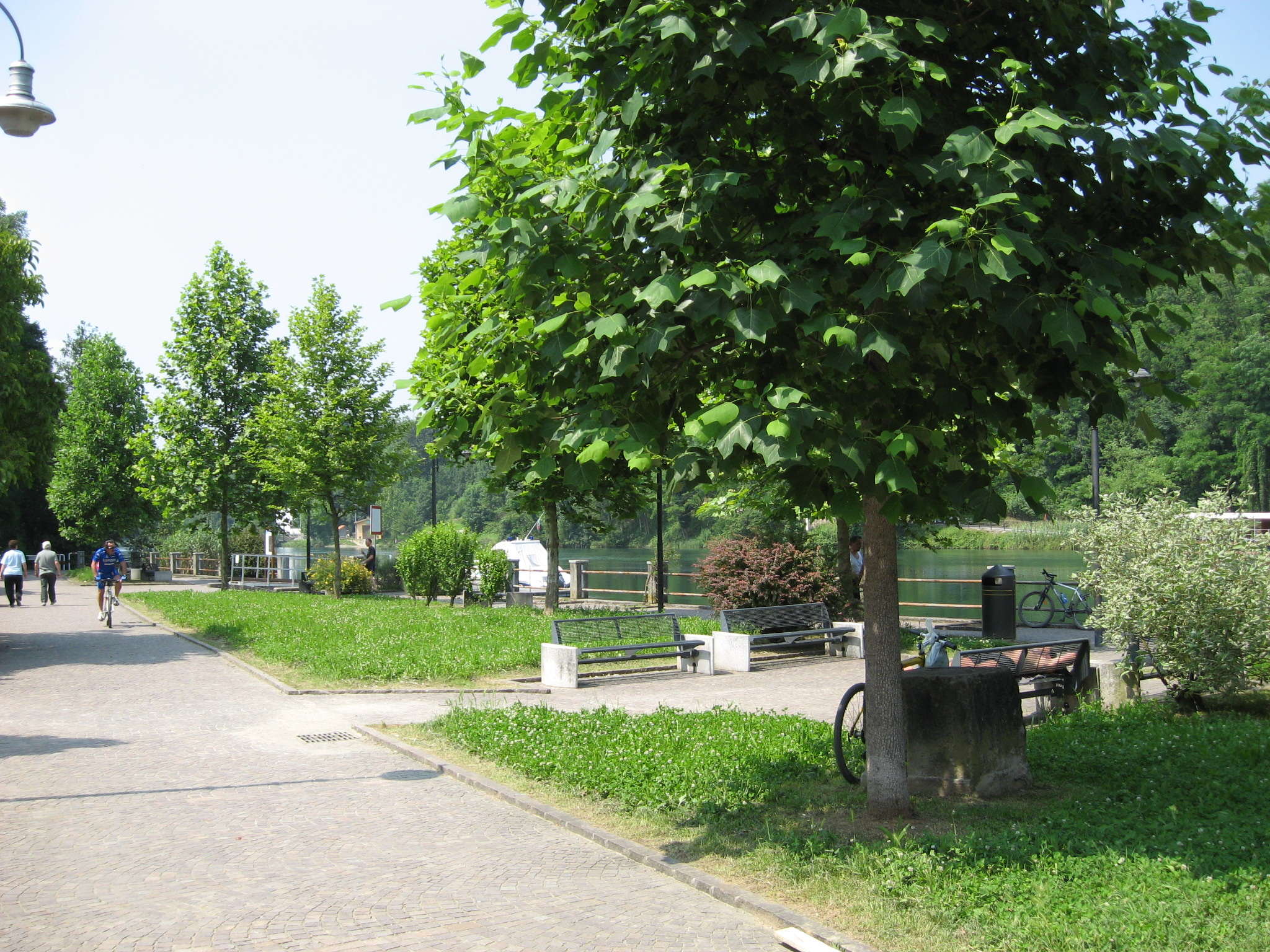 Park of the Traghetto di Leonardo in Imbersago, Italy